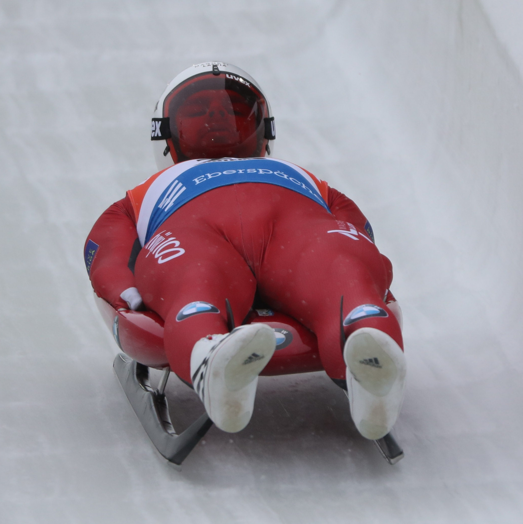 Luge World Cup Men in Winterberg